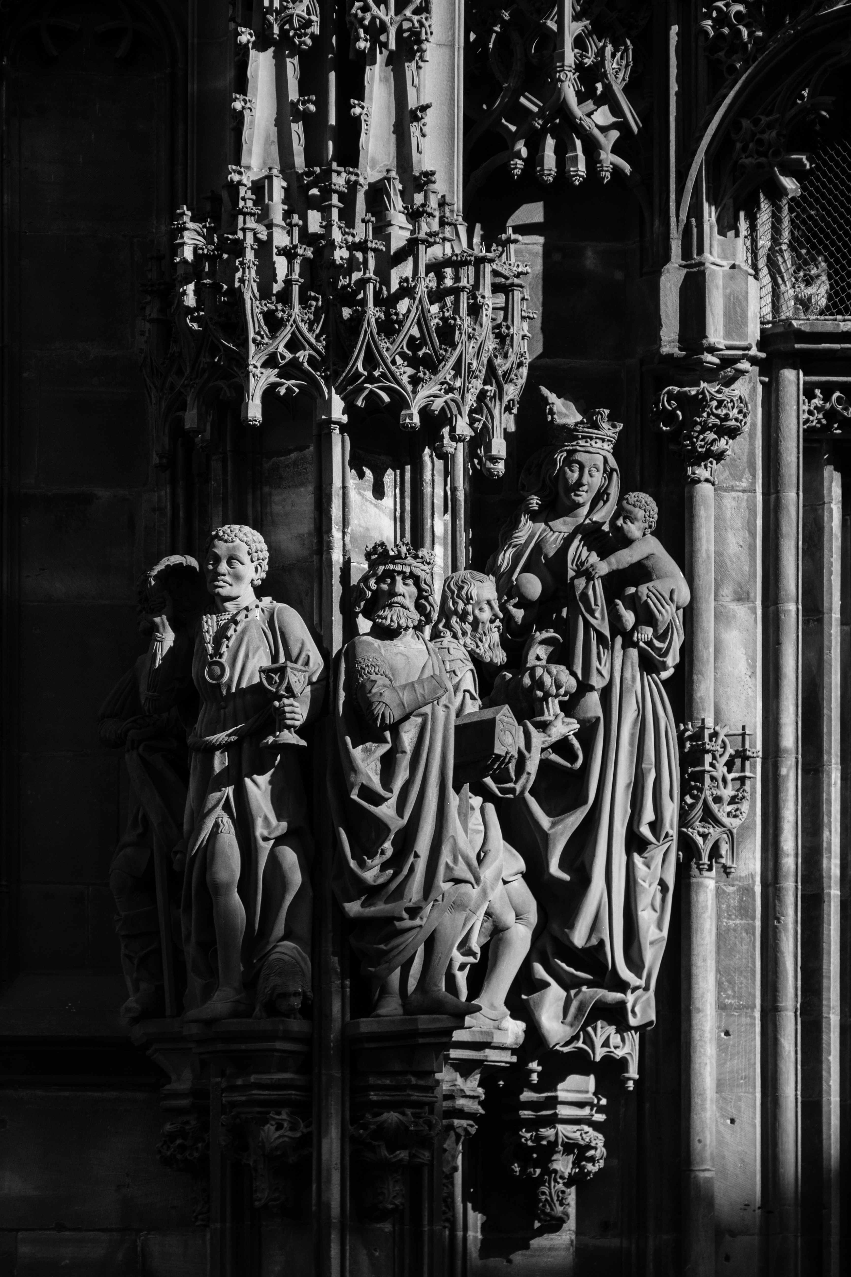 Depiction of the adoration of the Magi, sculptures of Jacques de Landshut on the Cathedral of Notre Dame in Strasbourg, work of architect Jakob von Landshut; executed during the years 1494-1505. .